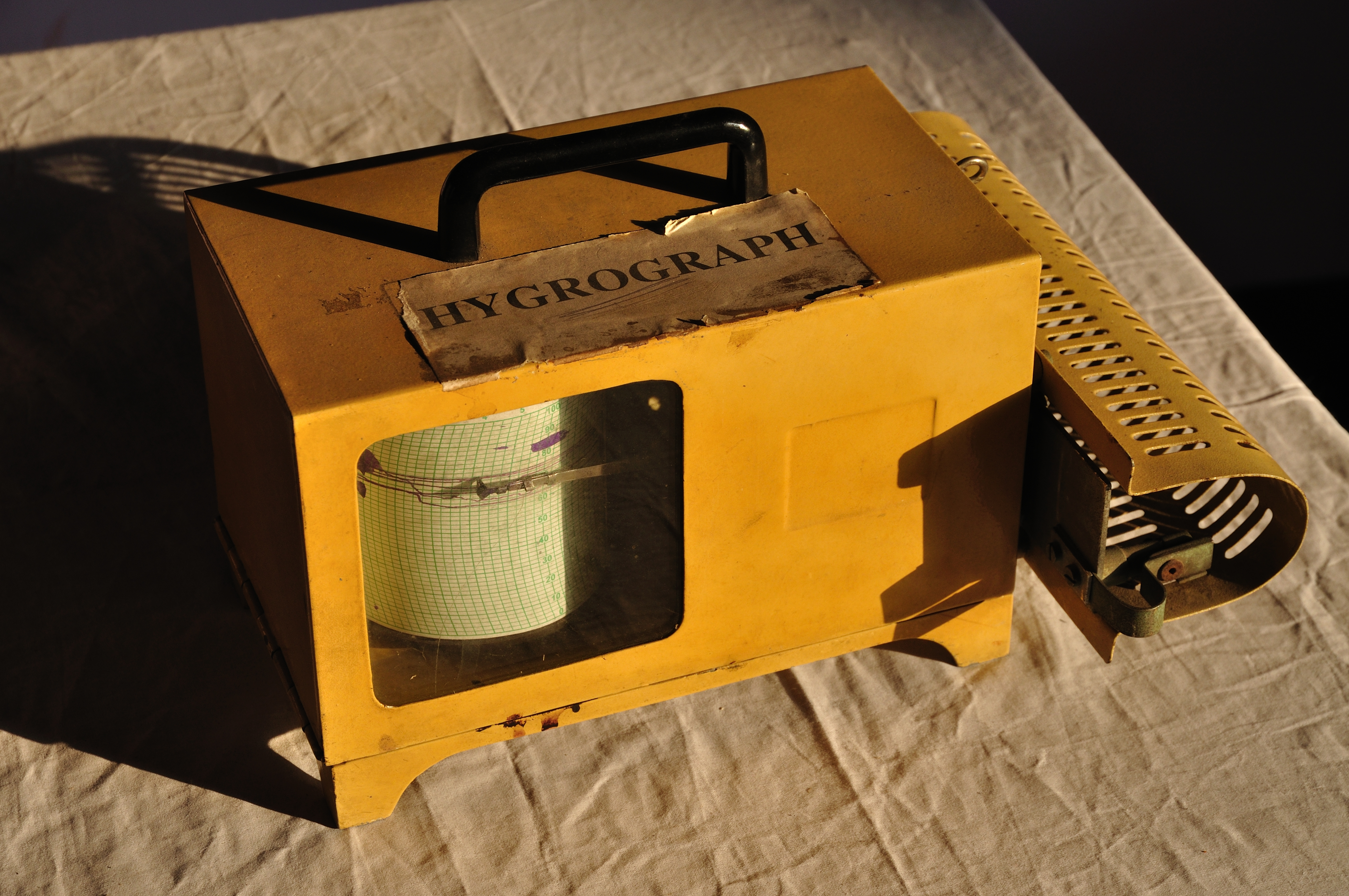 Meteorological instrument of the Indian Meteorological Department.